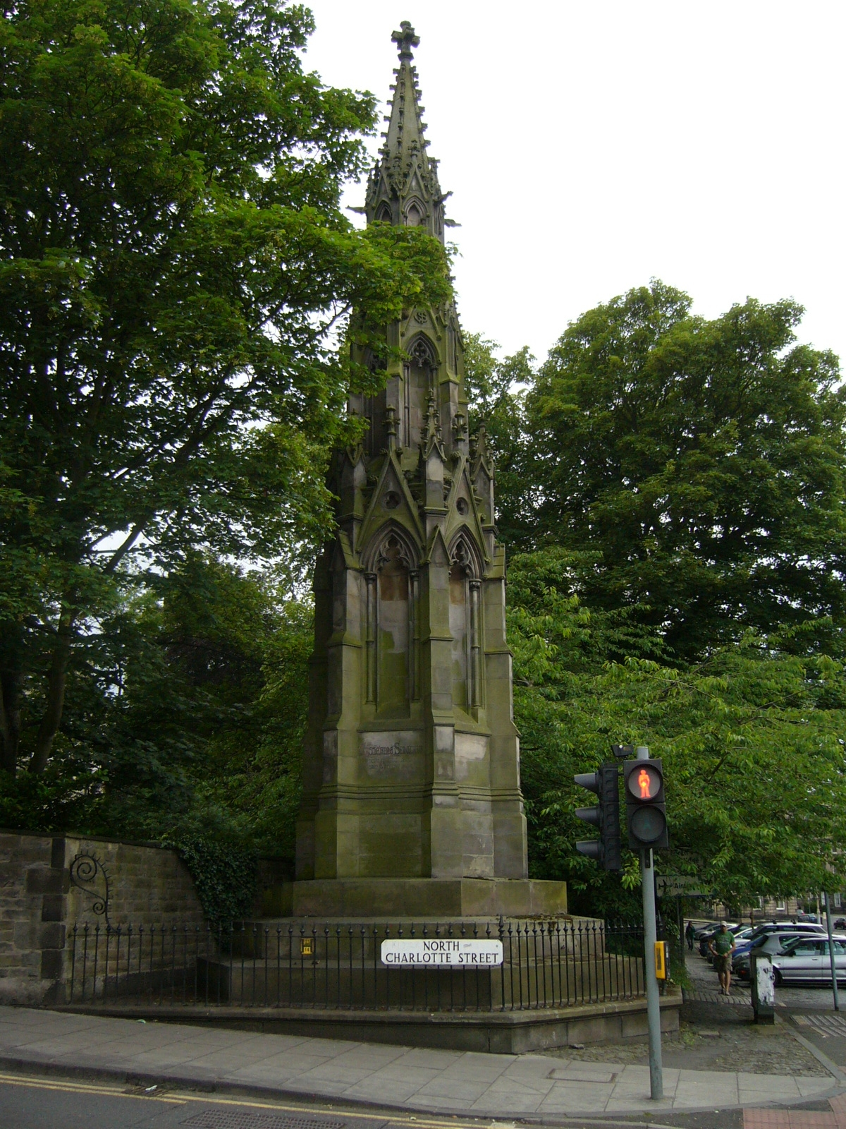 Tucked away unobtrusively at the foot of a slope where Charlotte Square meets Queen Street is a grand memorial to the Victorian writer and Christian philanthropist, Catherine Sinclair (1800-64). Her best known work, 'Holiday House', published in 1839, promoted the ideas of the German educationalist Froebel and is regarded as a watershed in children's literature because of its benevolent, non-moralising attitude to children's misbehaviour. The monument was erected in the late 1860s and is the work of John Rhind